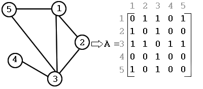 Adjacency Matrix